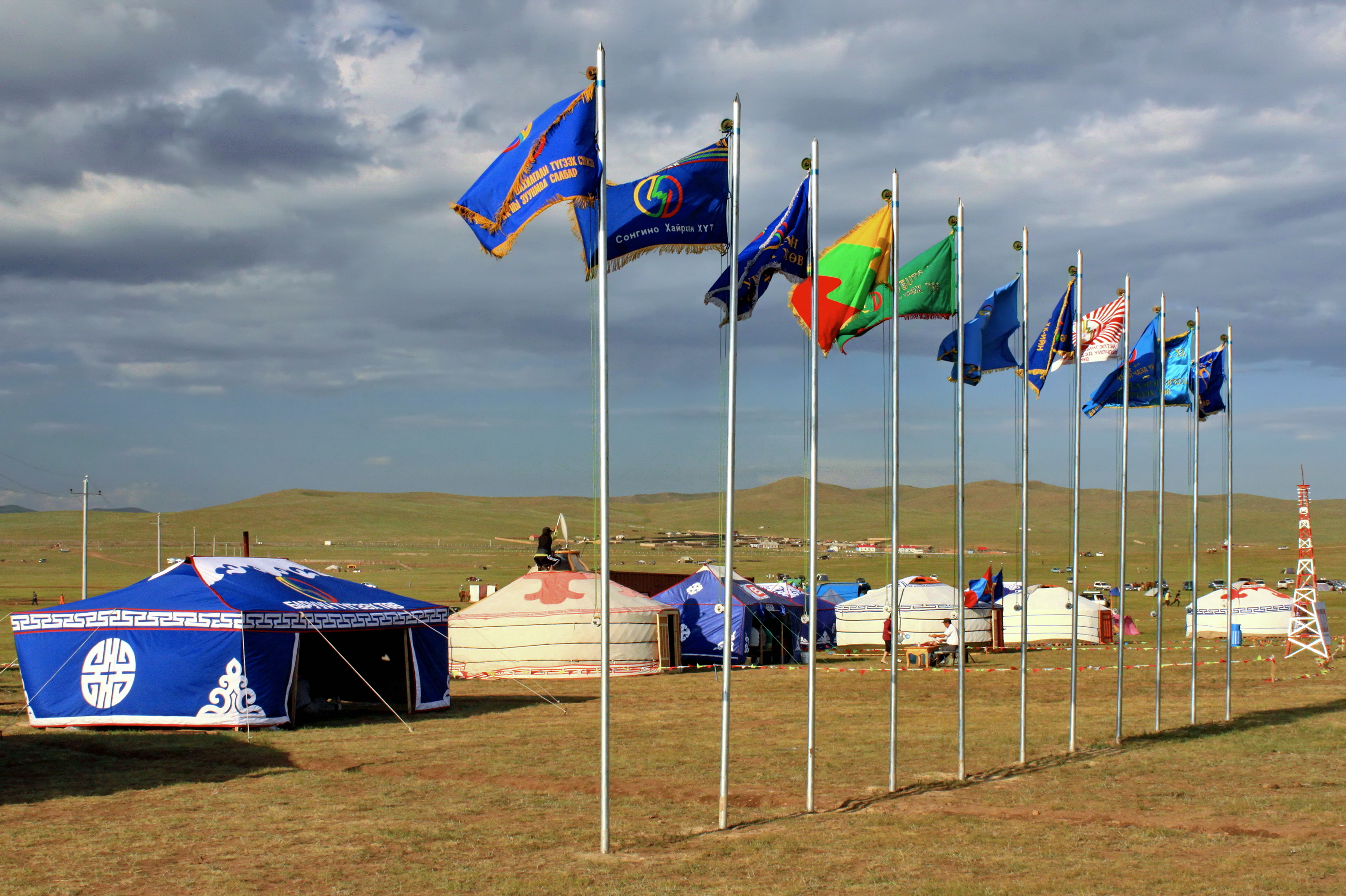 Naadam festival on the steppe, on the outskirts of Ulan Bator. Mongolia. Yurts.